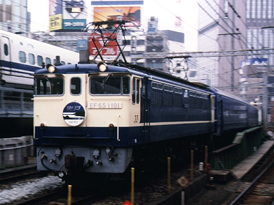 JR class EF65-1000 electric locomotive EF65-1101 hauling the Seto sleeping car train past Yurakucho Station in Tokyo